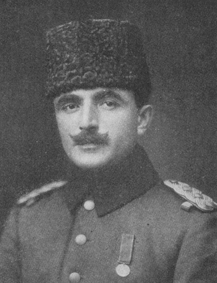 Original caption "Enver Bey Turkish Minister of War, who has warmly supported Germany"